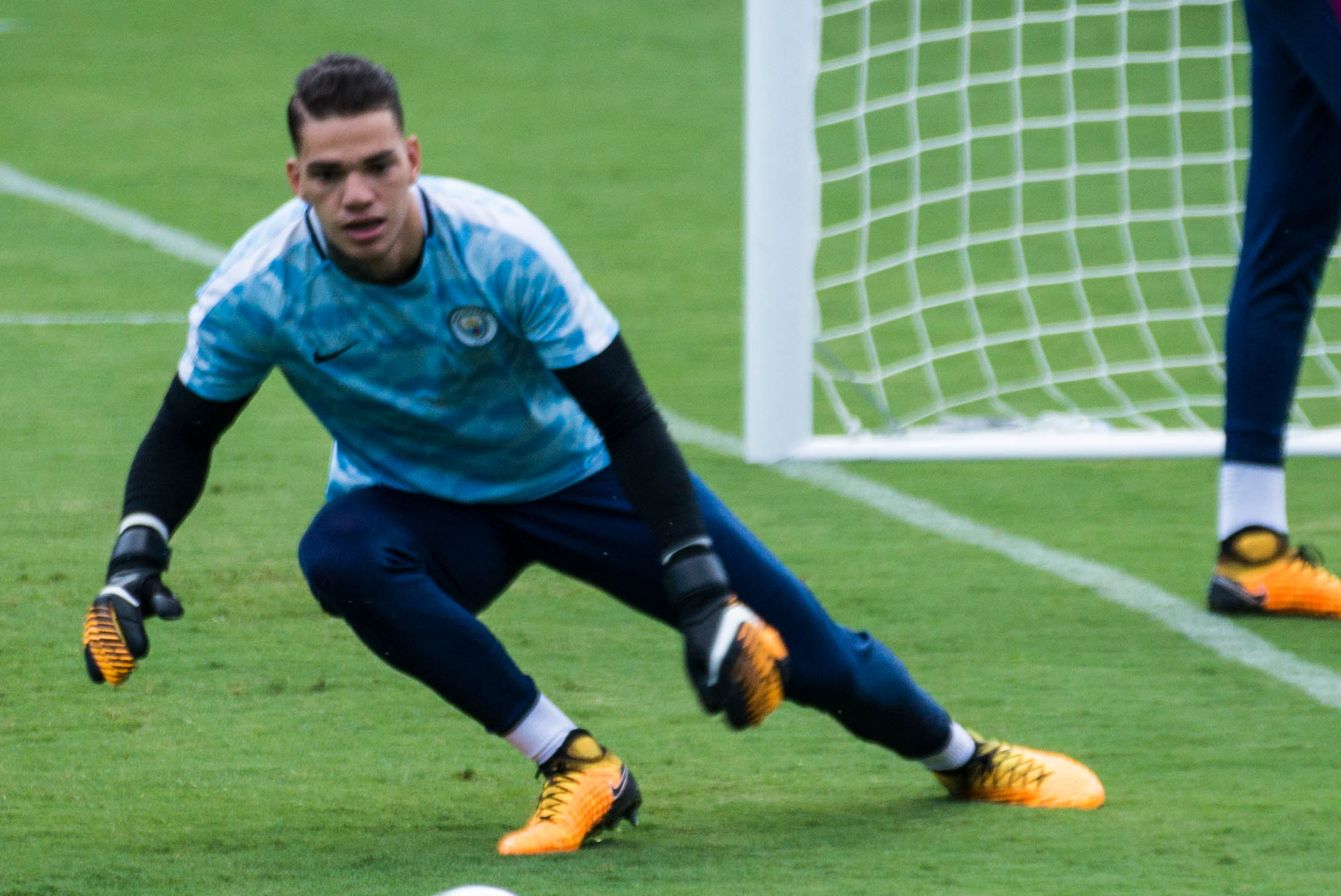 Manchester City vs Tottenham Hotspur at Nissan Stadium in Nashville, TN